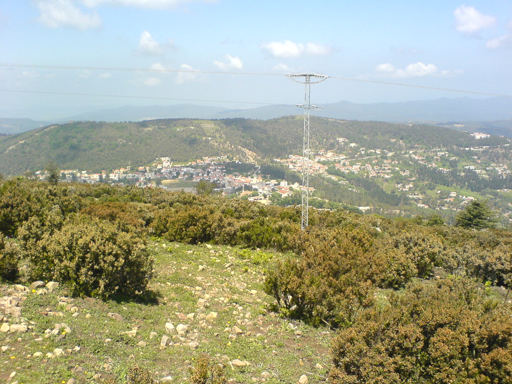 View of Ain Draham, Tunisia